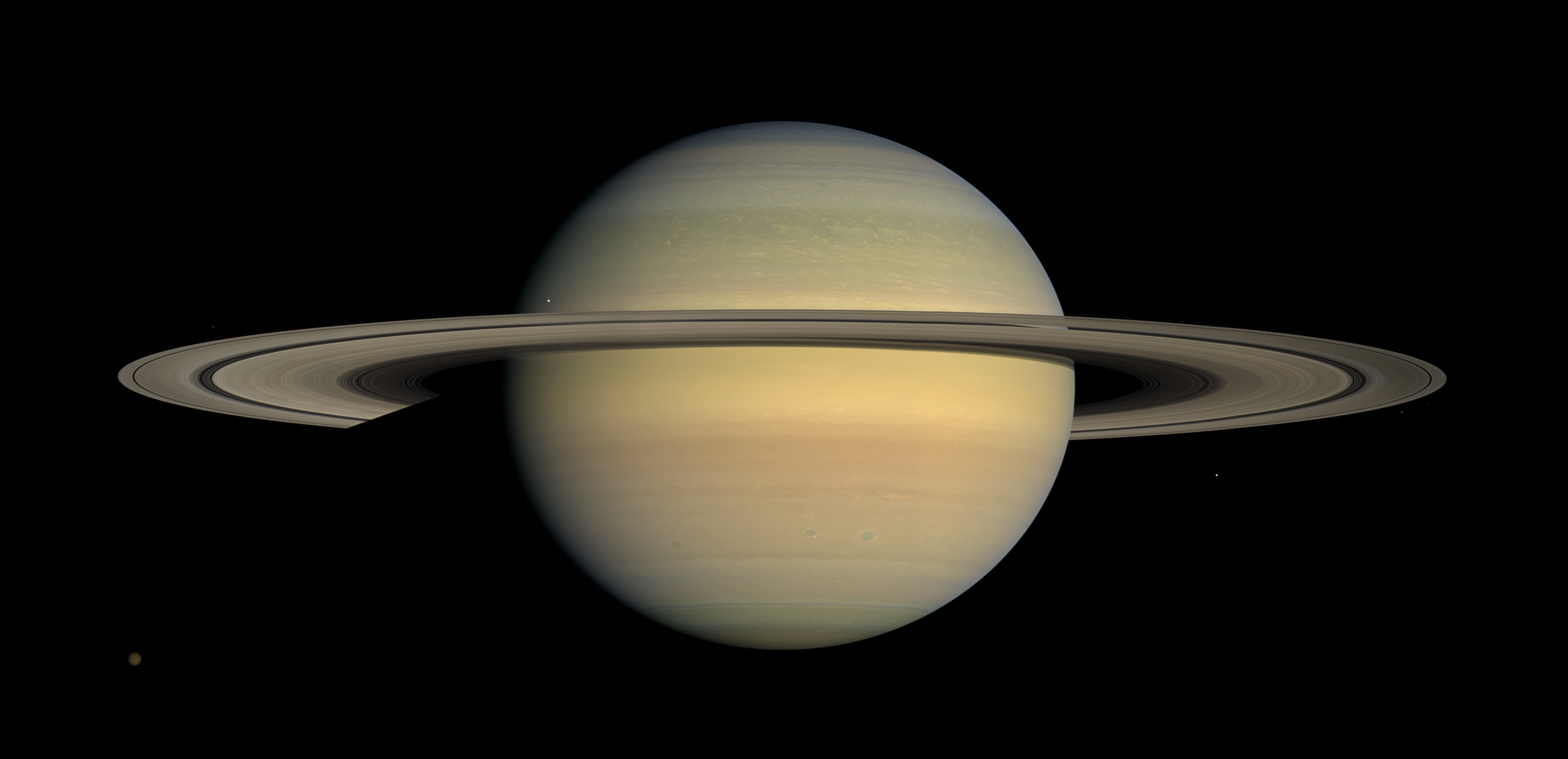 This captivating natural color view of the planet Saturn was created from images collected shortly after Cassini began its extended Equinox Mission in July 2008. (Saturn actually reached equinox on August 11, 2009.)